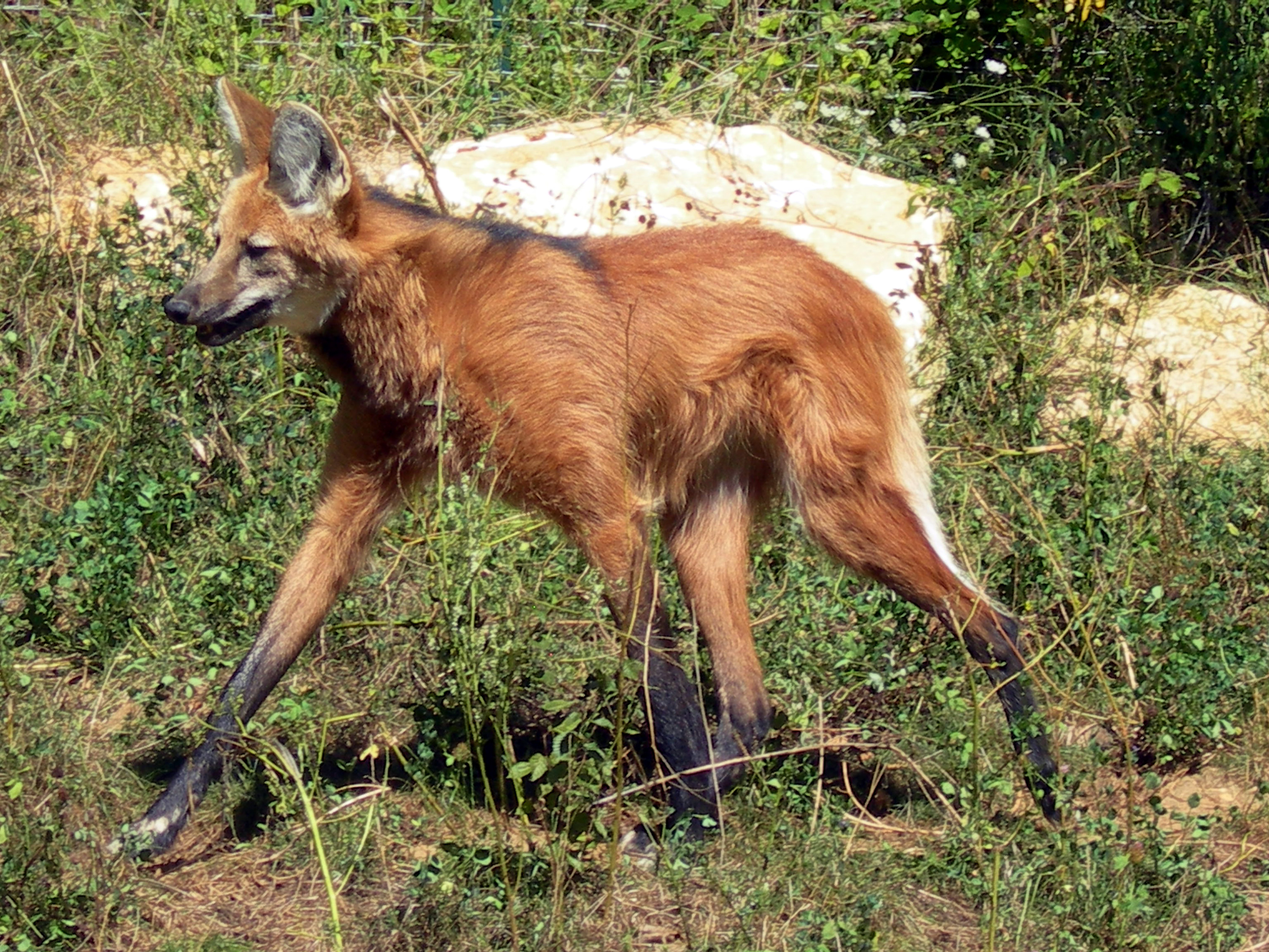 A maned wolf, walking.